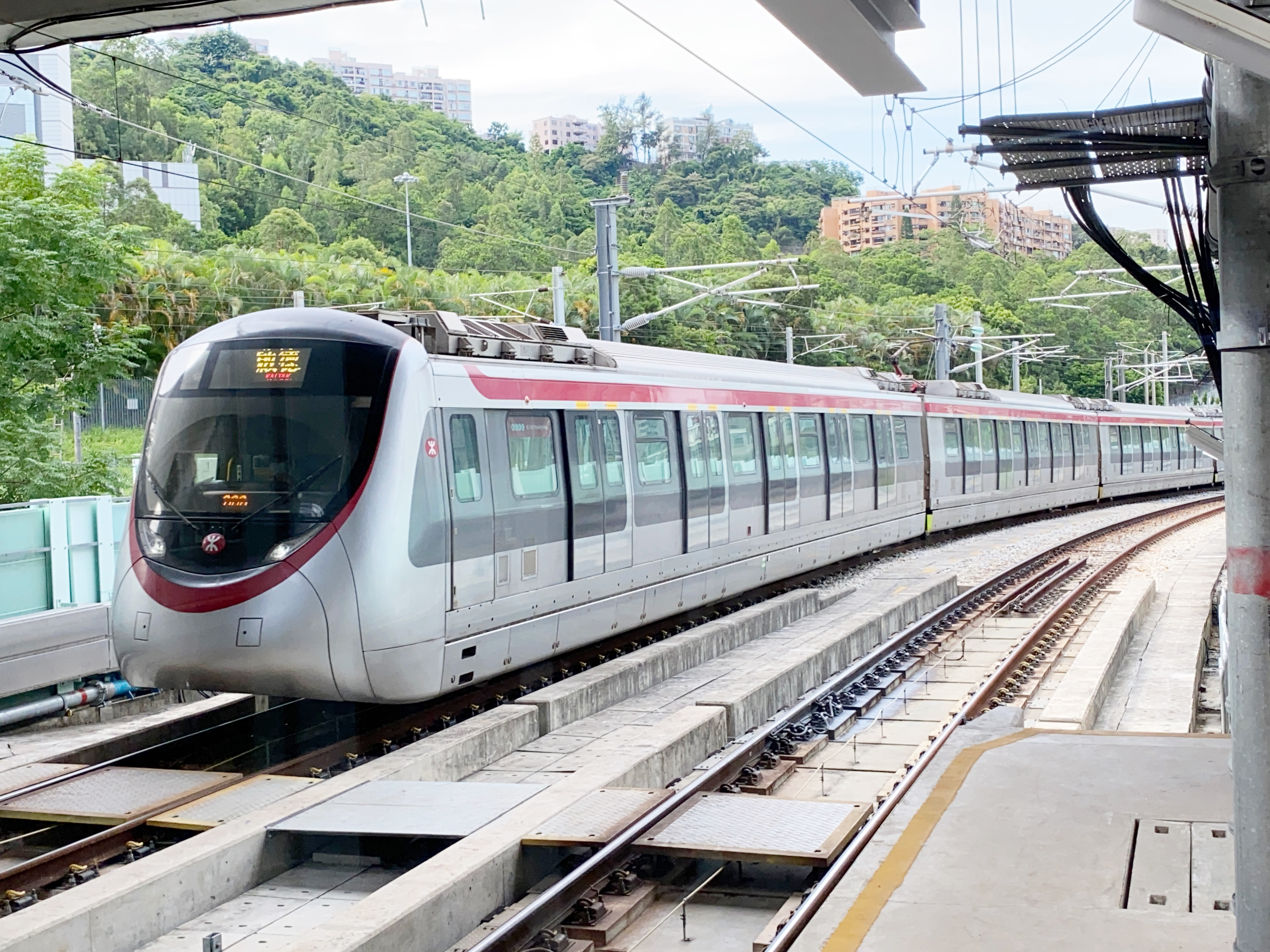 中文（香港）: This photo is taken in Hin Keng Station.